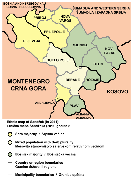 Ethnic map of Sandžak in 2011.